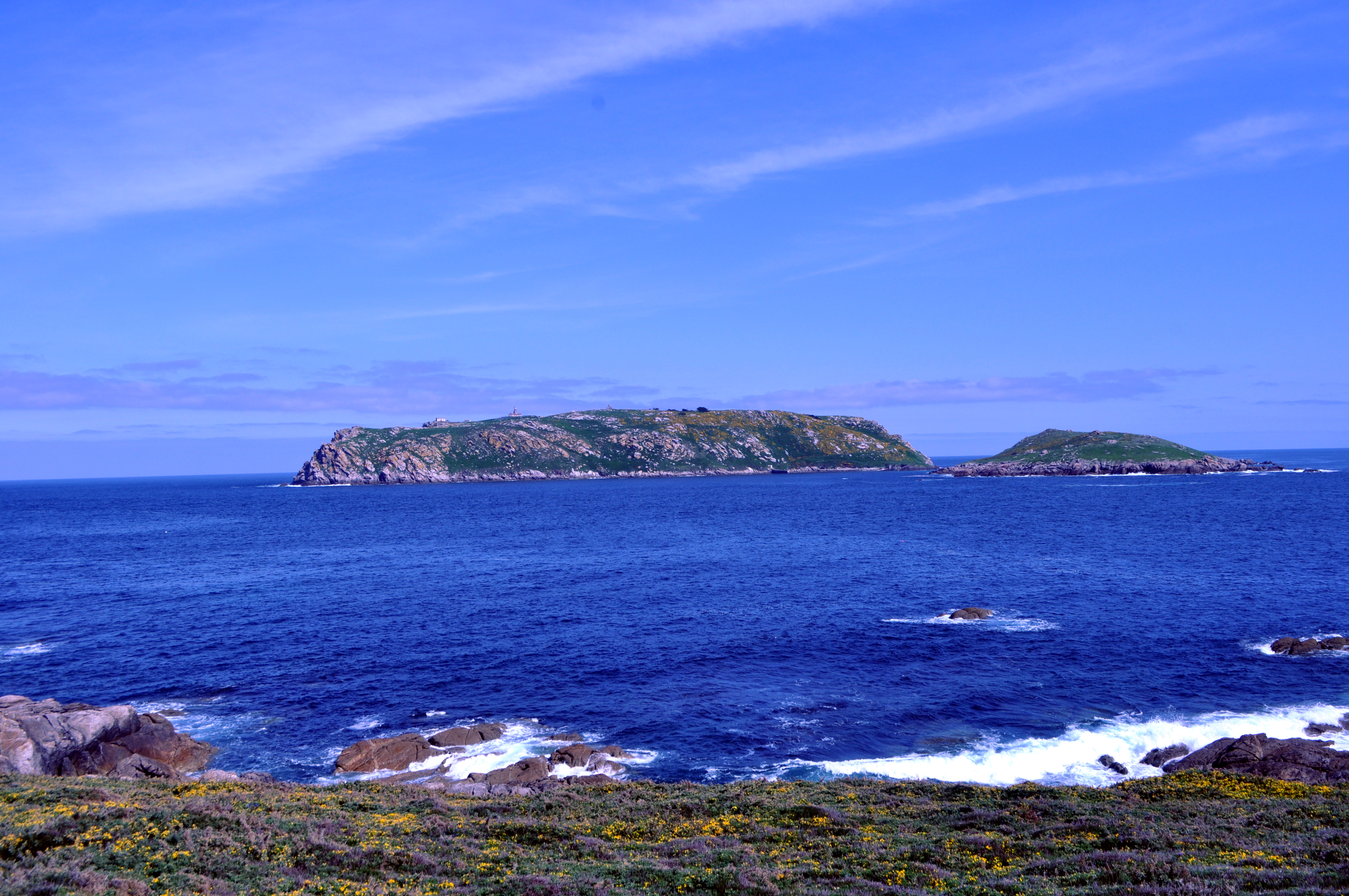 Illas Sisargas This is a photography of a Special Area of Conservation in Spain with the ID: ES1110005. Natura2000 entry, EEA entry